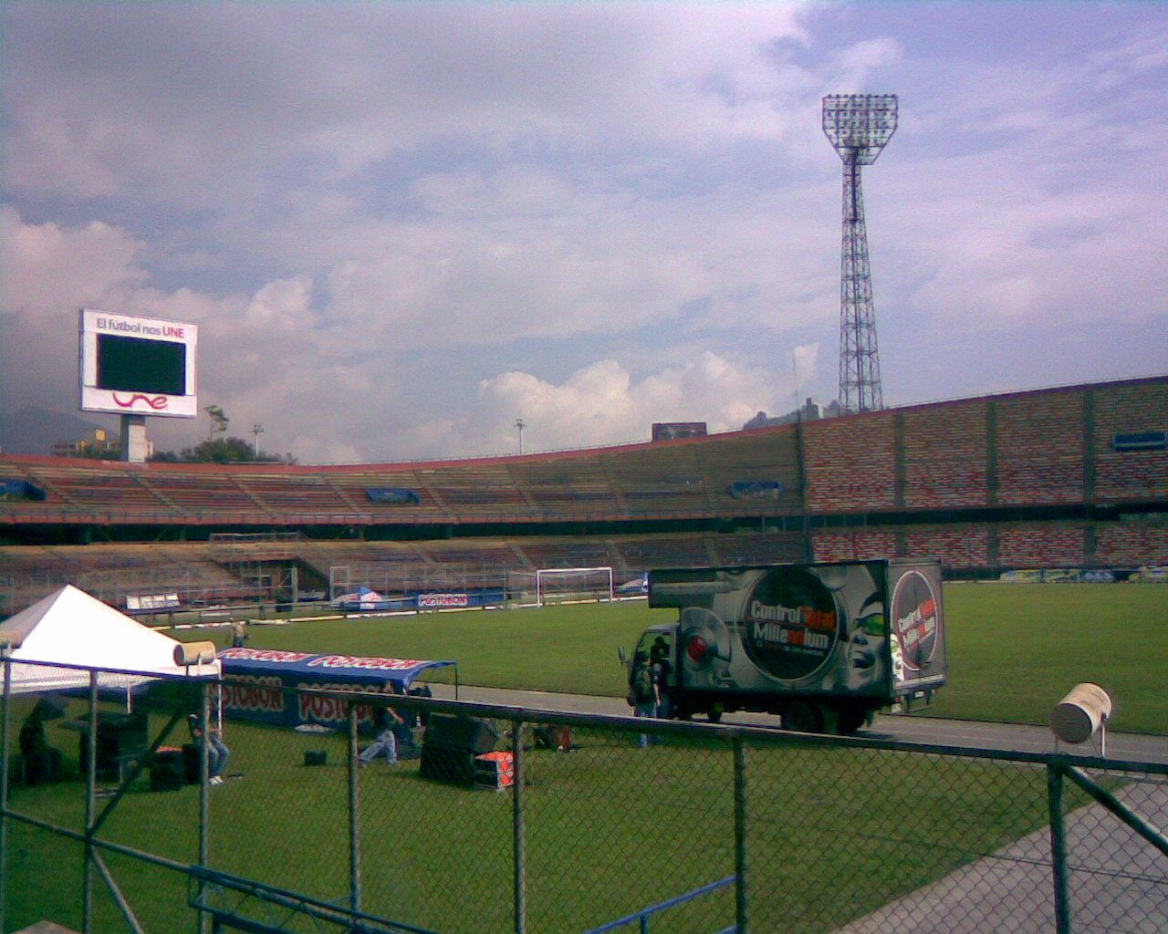 Medellin Stadium